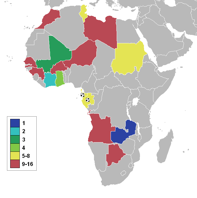 Countries positions in the 2012 African Cup of Nations 1st 2nd 3rd 4th 5th-8th 9th-16th Football denotes host nation (Gabon and Equatorial Guinea)